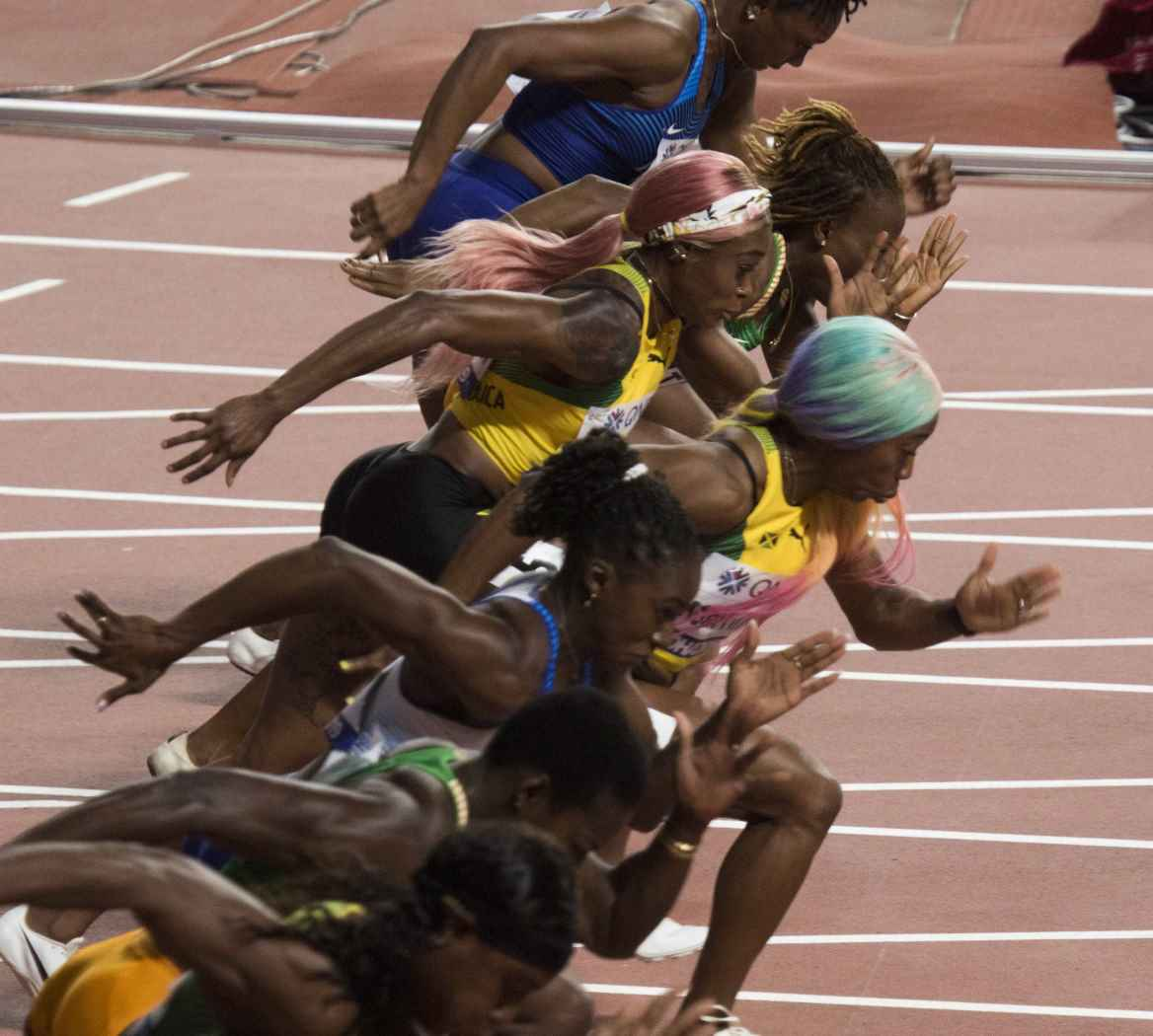 DOH30187 100m final women